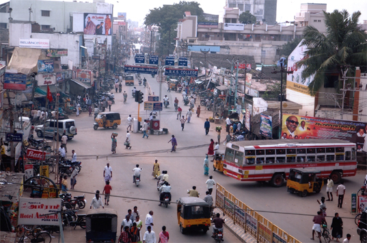 This is a very important location in my hometown (Kallakurichi).